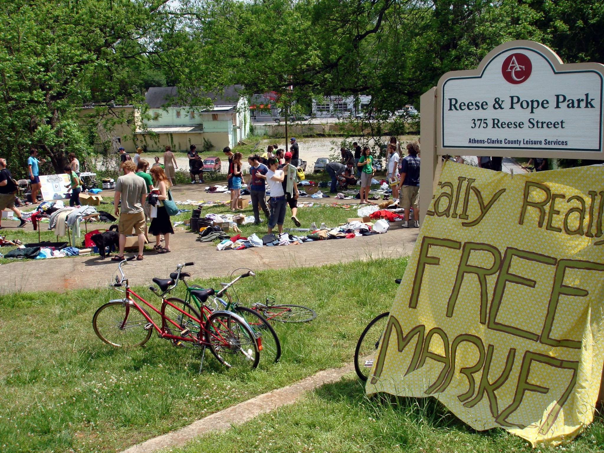 the Really Really Free Market, Mayday weekend 2007.